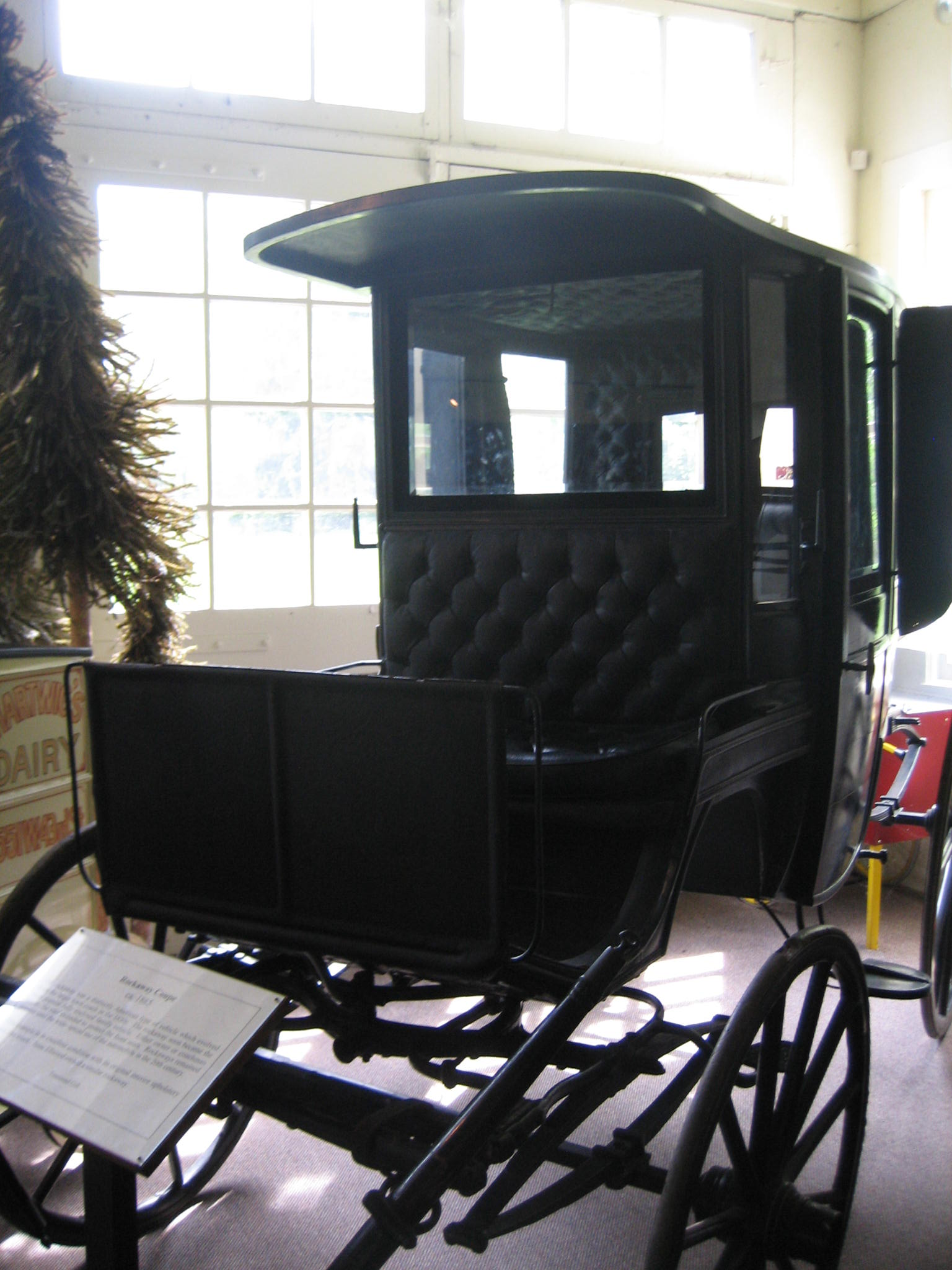 A Rockaway Coach type carriage, circa 1860. At the Ellwood House Visitor Center in DeKalb, Illinois.